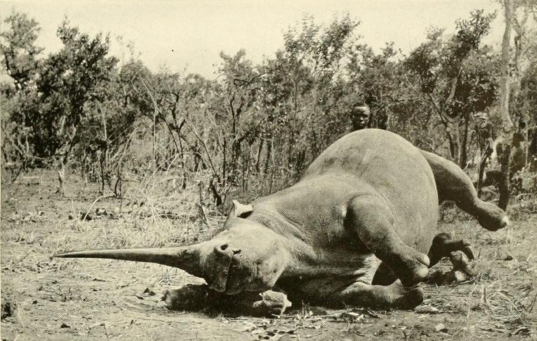 White rhinoceros cow. The front horn measured 36.25 in. and the rear one 22.5 in.